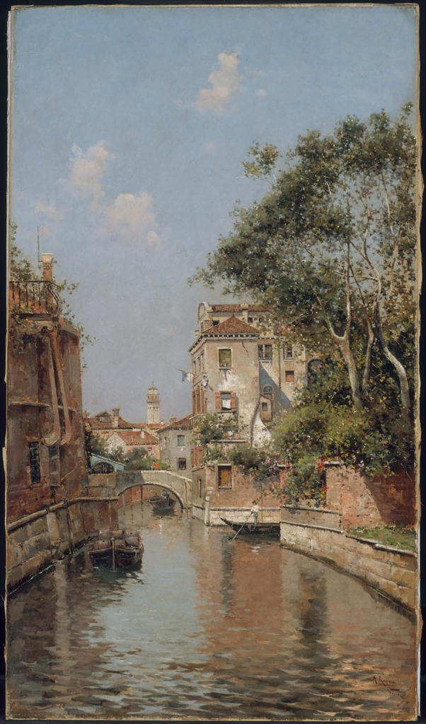 Canal in Venice (c. 1915) by Antonio Reyna Manescau. Museum of Fine Arts, Boston